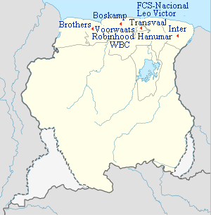 MAPA EQUIPES